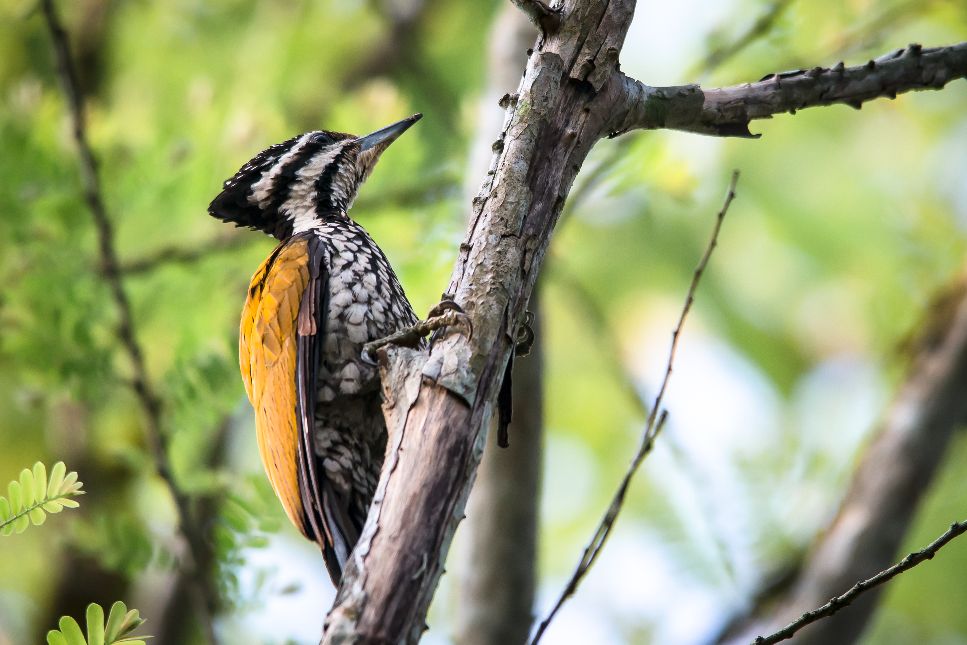 This photo is published under Creative Commons Attribution-Share-Alike Licence, means you are free to use this photo with attribution under same licence. When giving attribution, please use following; Owner: Thai National Parks Link